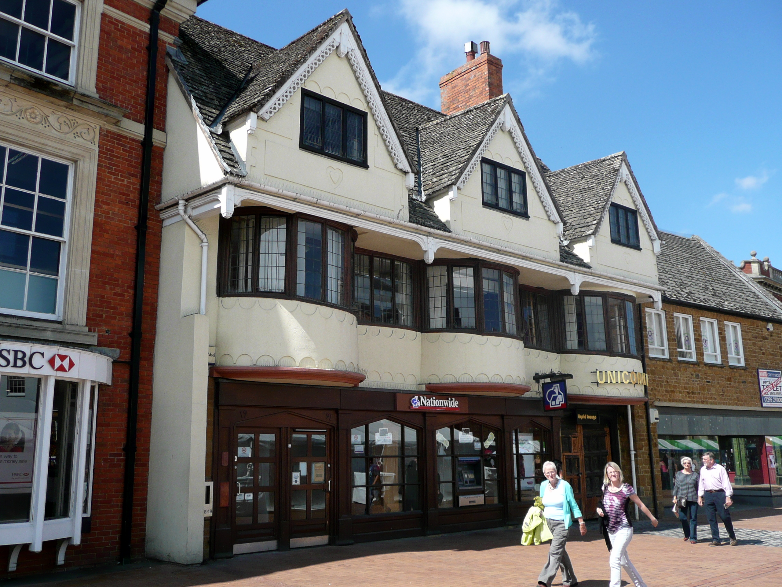 Unicorn Hotel, 19 Market Square, Banbury, Oxfordshire